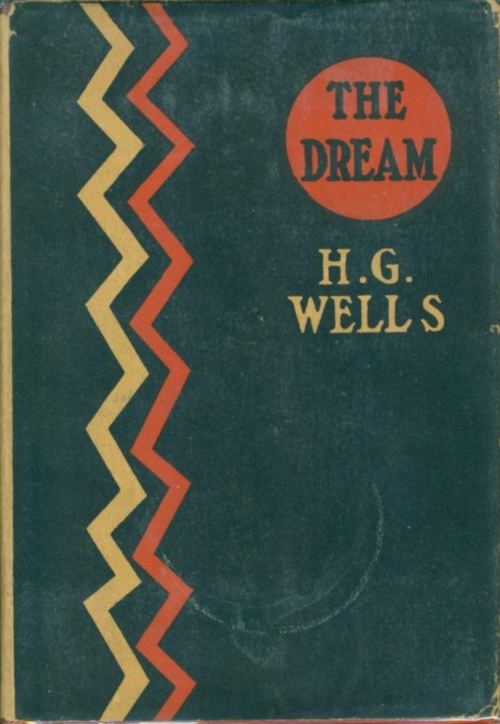 The Dream by H.G. Wells (Macmillan, 1924)